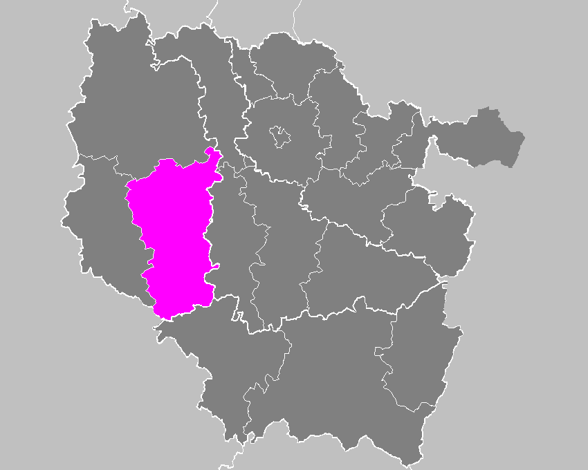 Maps of arrondissements and cantons of France: Arrondissement de Commercy.PNG